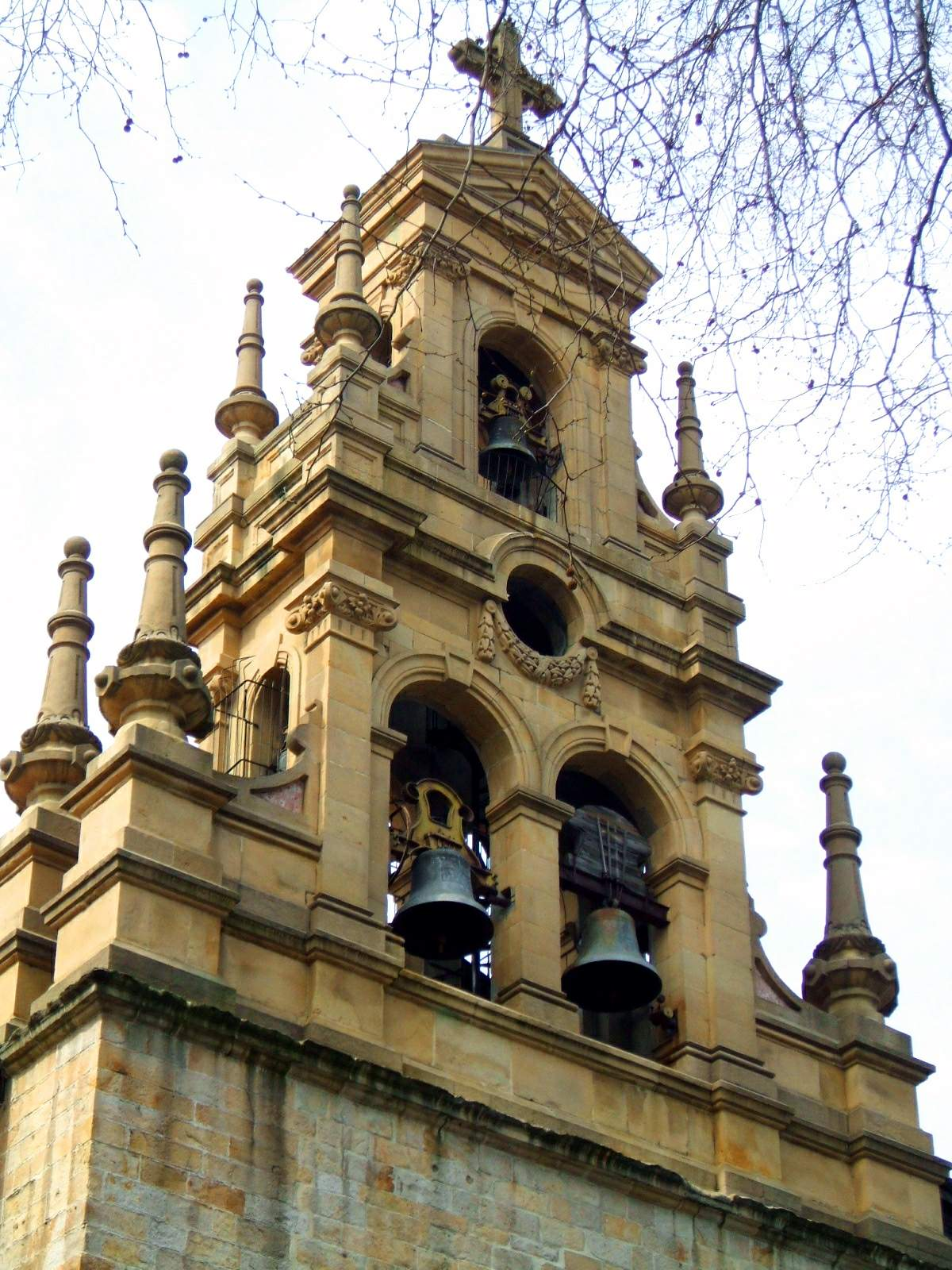 Espadaña barroca de la iglesia de San Vicente de Abando, Bilbao (España)